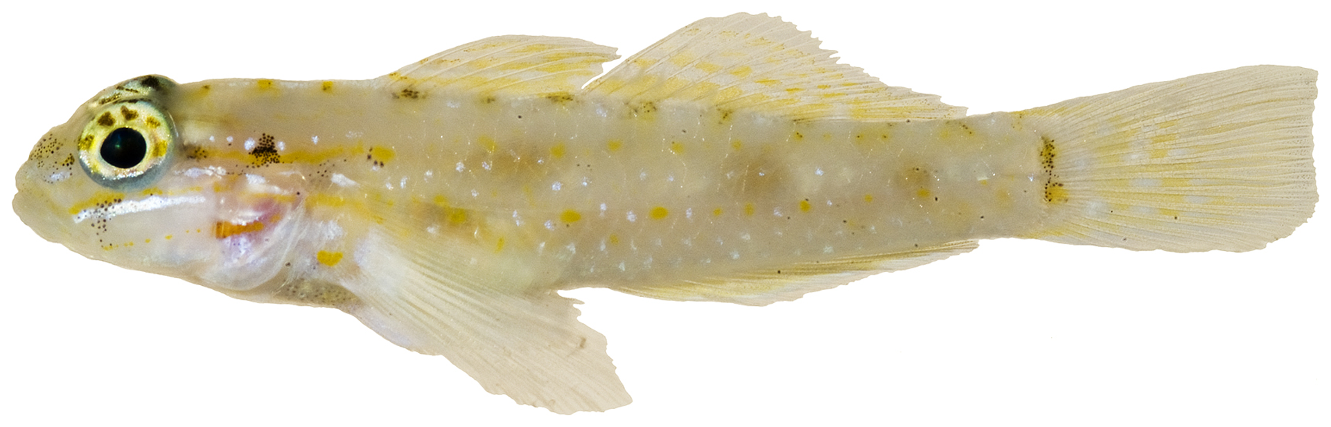 Coryphopterus glaucofraenum Gill, 1863—bridled goby, 33.7 mm SL. Photo by JT Williams.